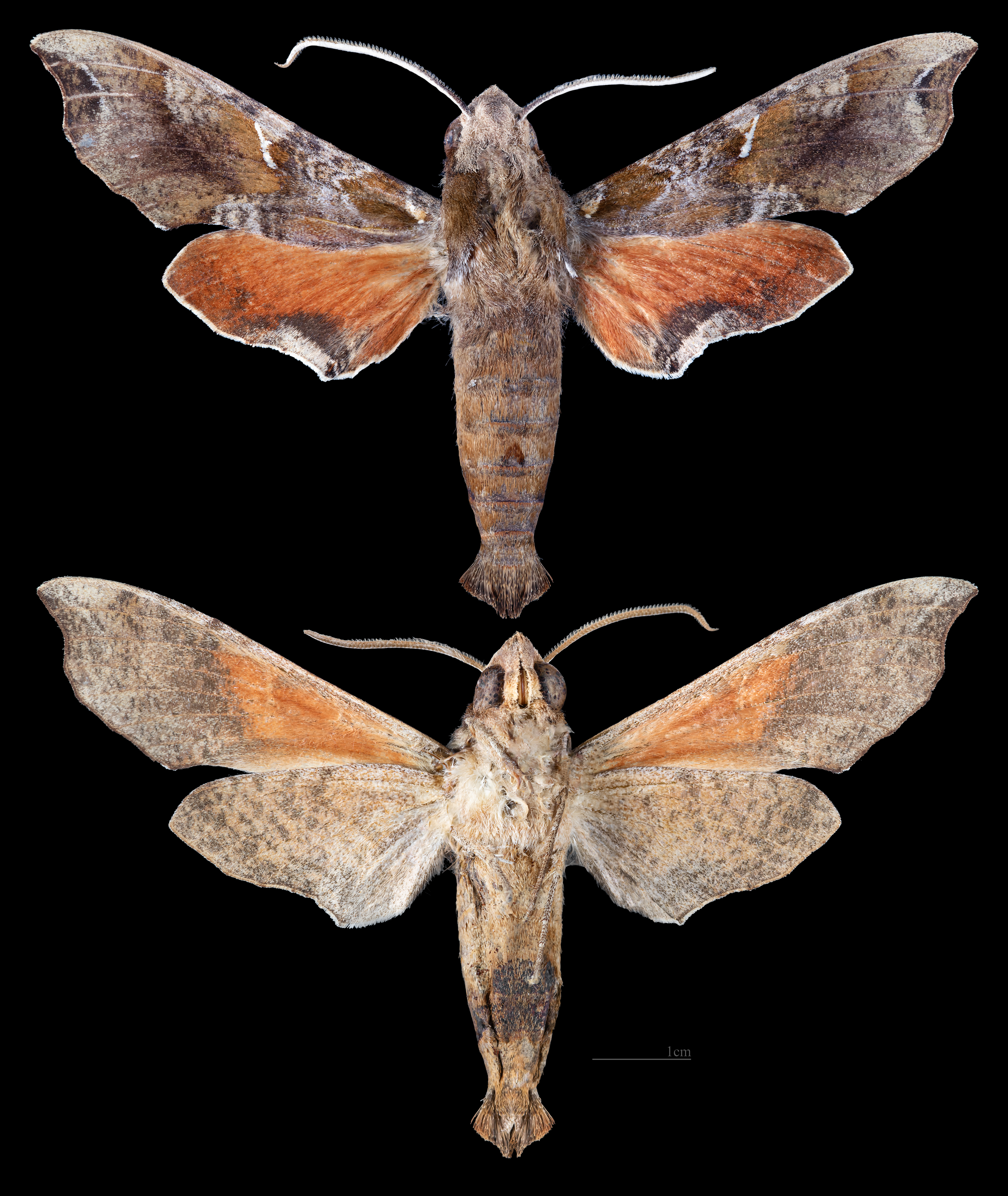 Callionima grisescens - Two views of same specimen Collection of the Mathematician Laurent Schwartz